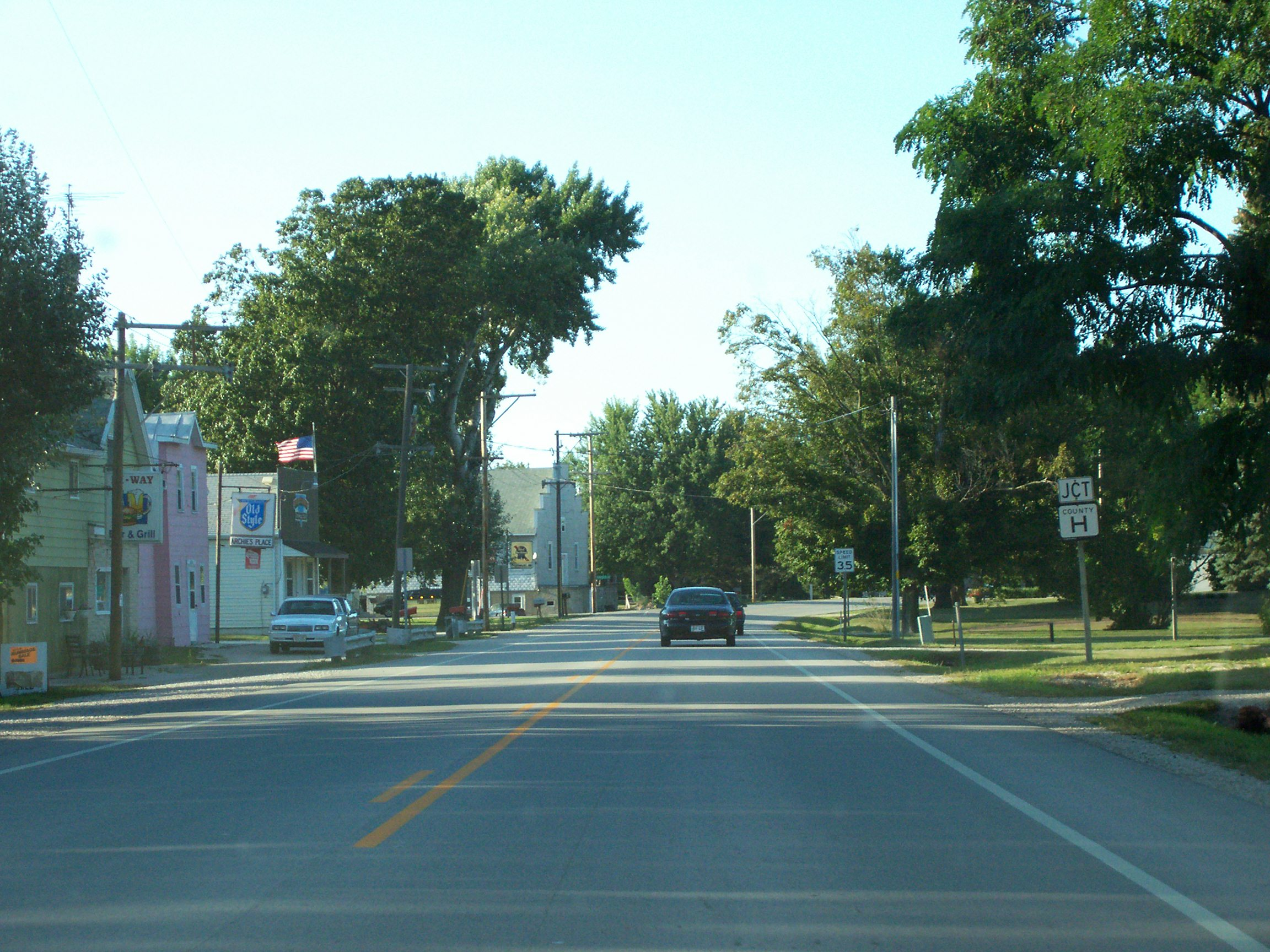 A picture of the unincorporated village of Brothertown, Wisconsin in the township of Brothertown, Wisconsin. The village is located on U.S. Route 151. This image was taken August 31, 2006 by User:Royalbroil Category:Images of Wisconsin highways